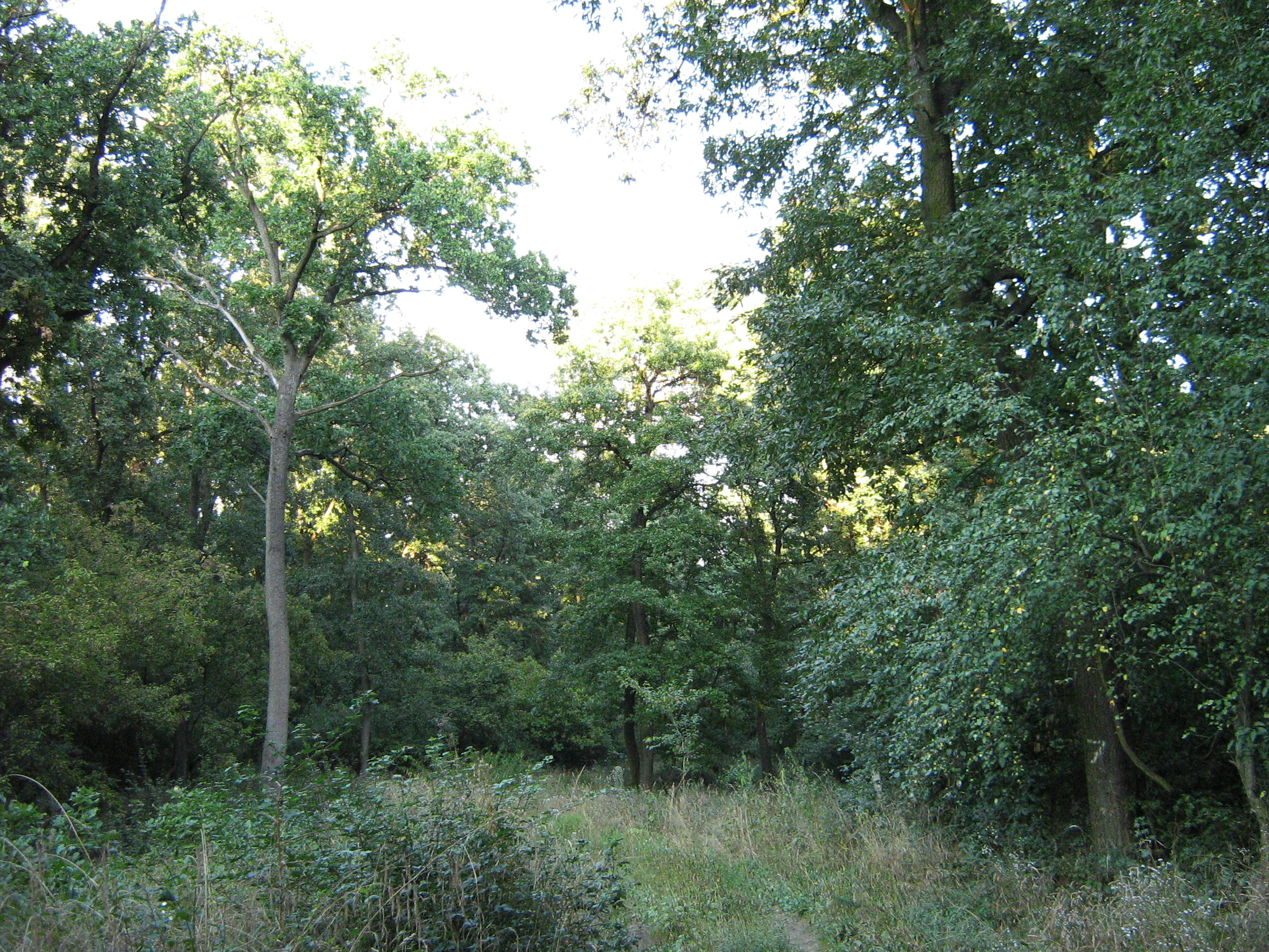 'Aceri tatarico quercetum' The most characteristic native type of plain forests in Hungary. Nearly extinct ecological association.